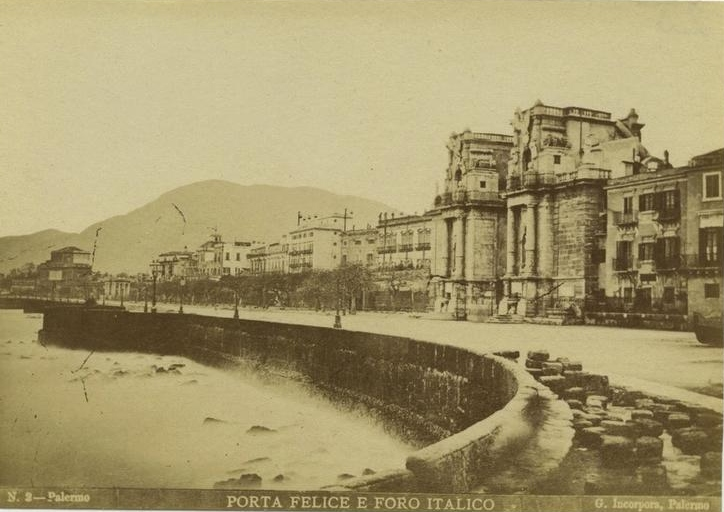 Giuseppe Incorpora (1834-1914), "Palermo - Porta Felice gate and Foro italico". Catalogue # 02.